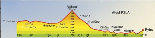 map of my marathon